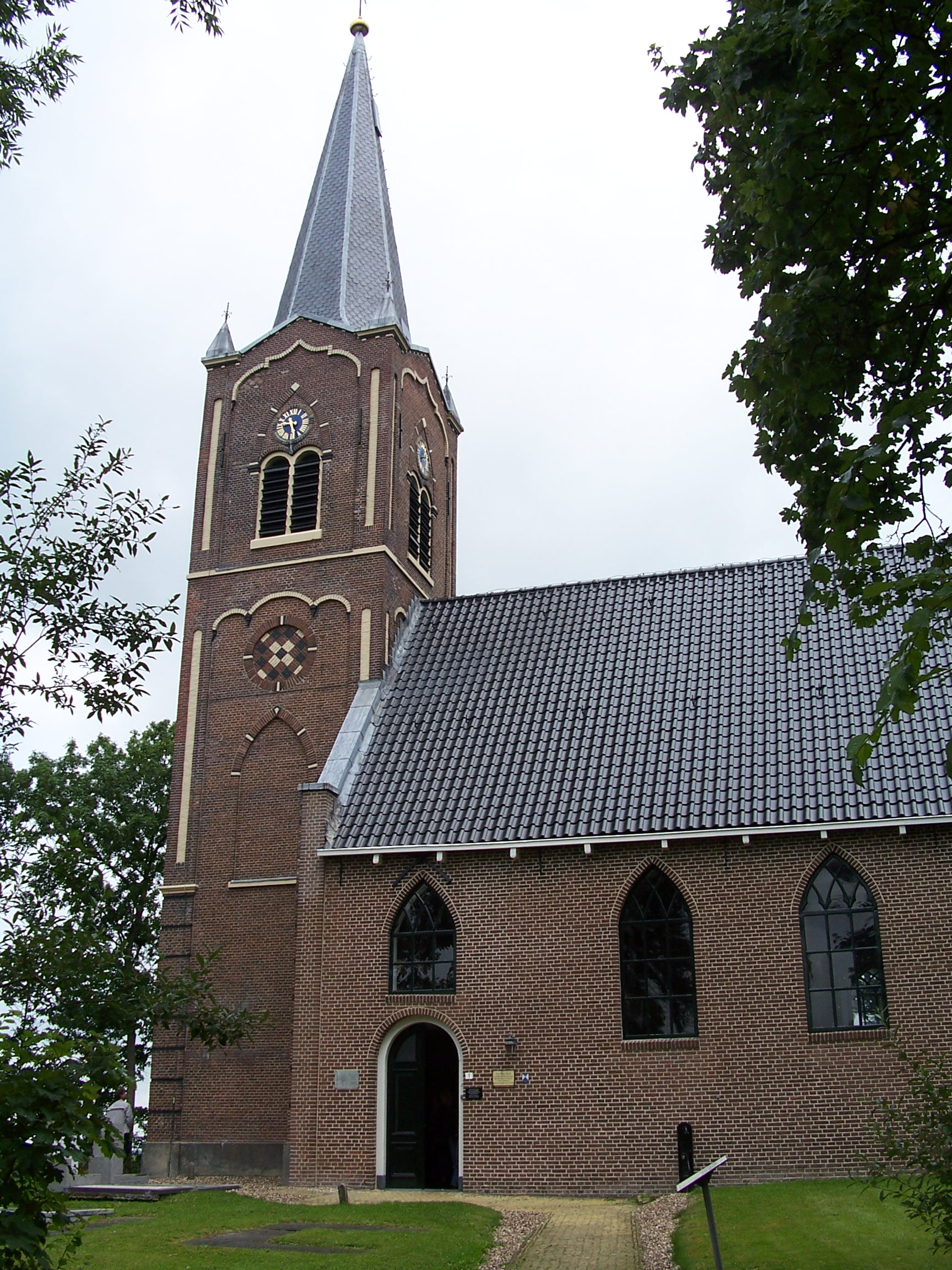 Church of Wieuwerd